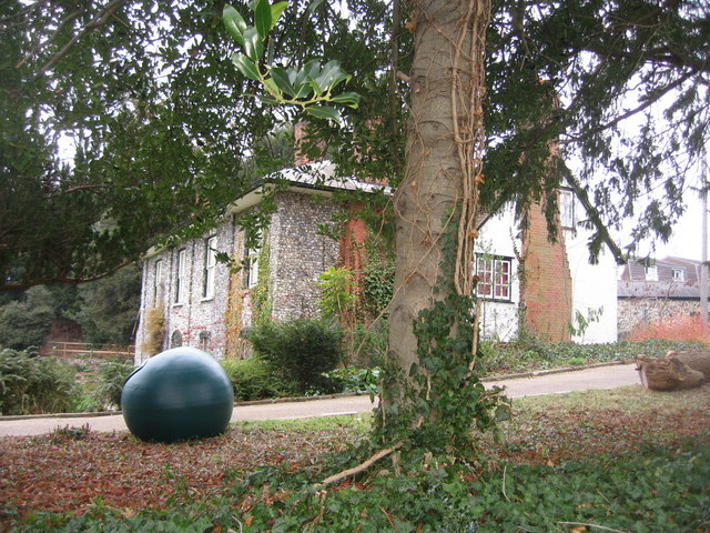 Wycombe Museum As seen over the wall from The Greenway.